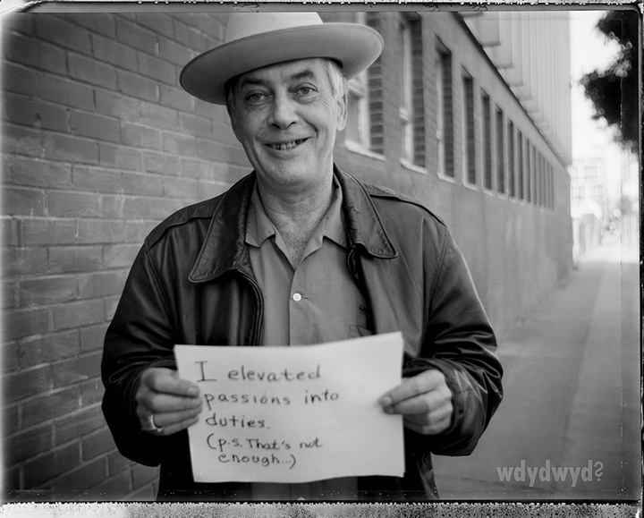 Larry Harvey answered "Why do you do what you do?" as part of a community-art project that started at Burning Man in 2004, and is a continuing collaboration: Photographed in San Francisco, California.